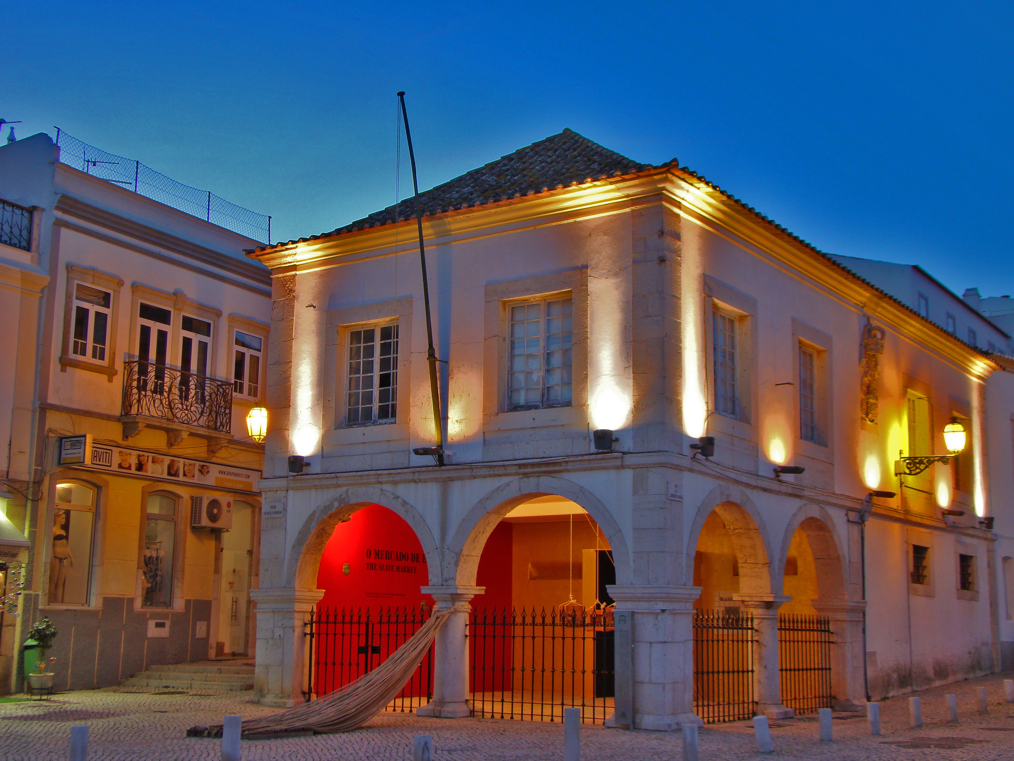 This building was once housed the slave market in town of Lagos, Algarve, Portugal. The building is located on the Praça Infante Dom Henrique and is classified as a monument of public interest. It was built in 1691 although the trade in slaves from Africa began on this sight in the mid fifteenth century and from here slaves were shipped throughout Europe at great profit to the Portuguese monarchy and merchants of lagos.